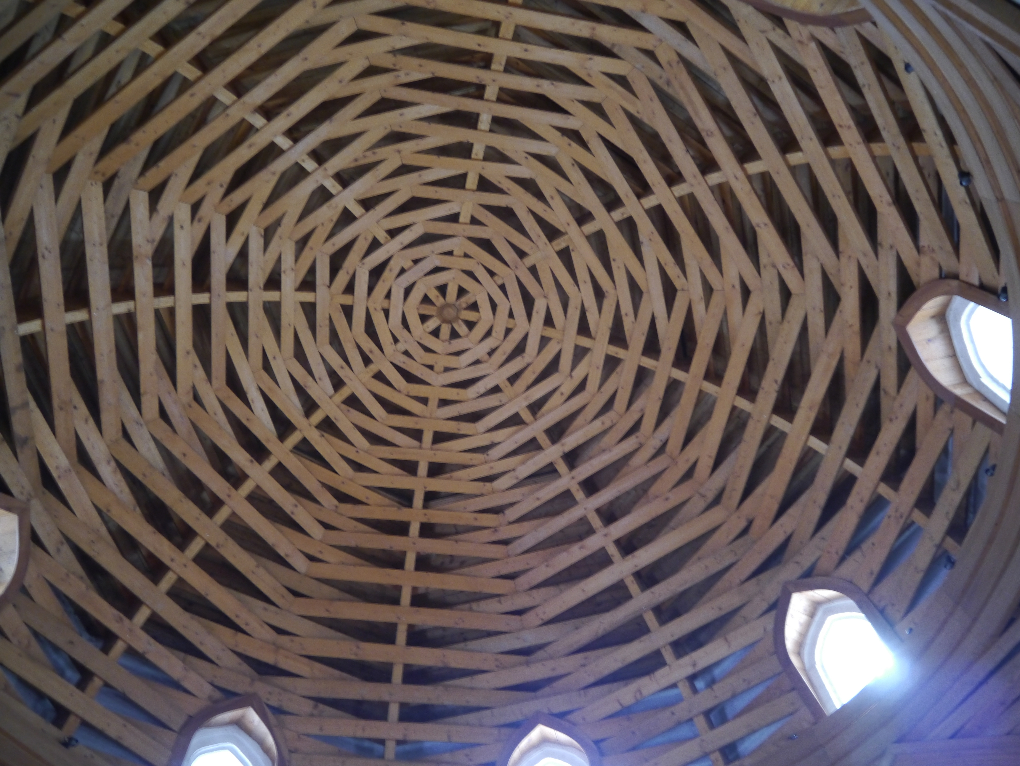 Dome of the Mosque, Siklós, Southern Hungary